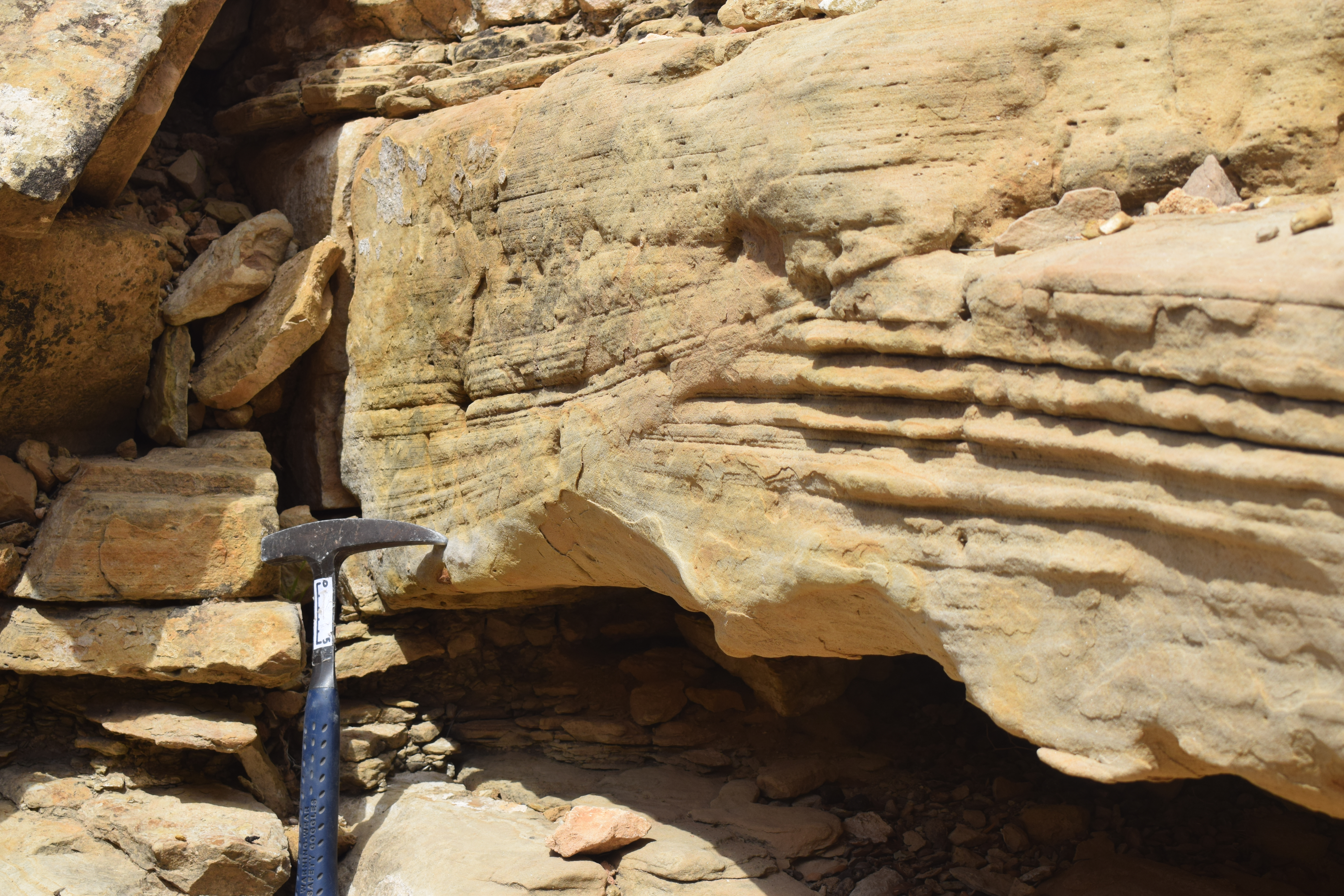 cross beds in transitionnal shoreface sandstones (Lower Cret.) Agadir basin morocco